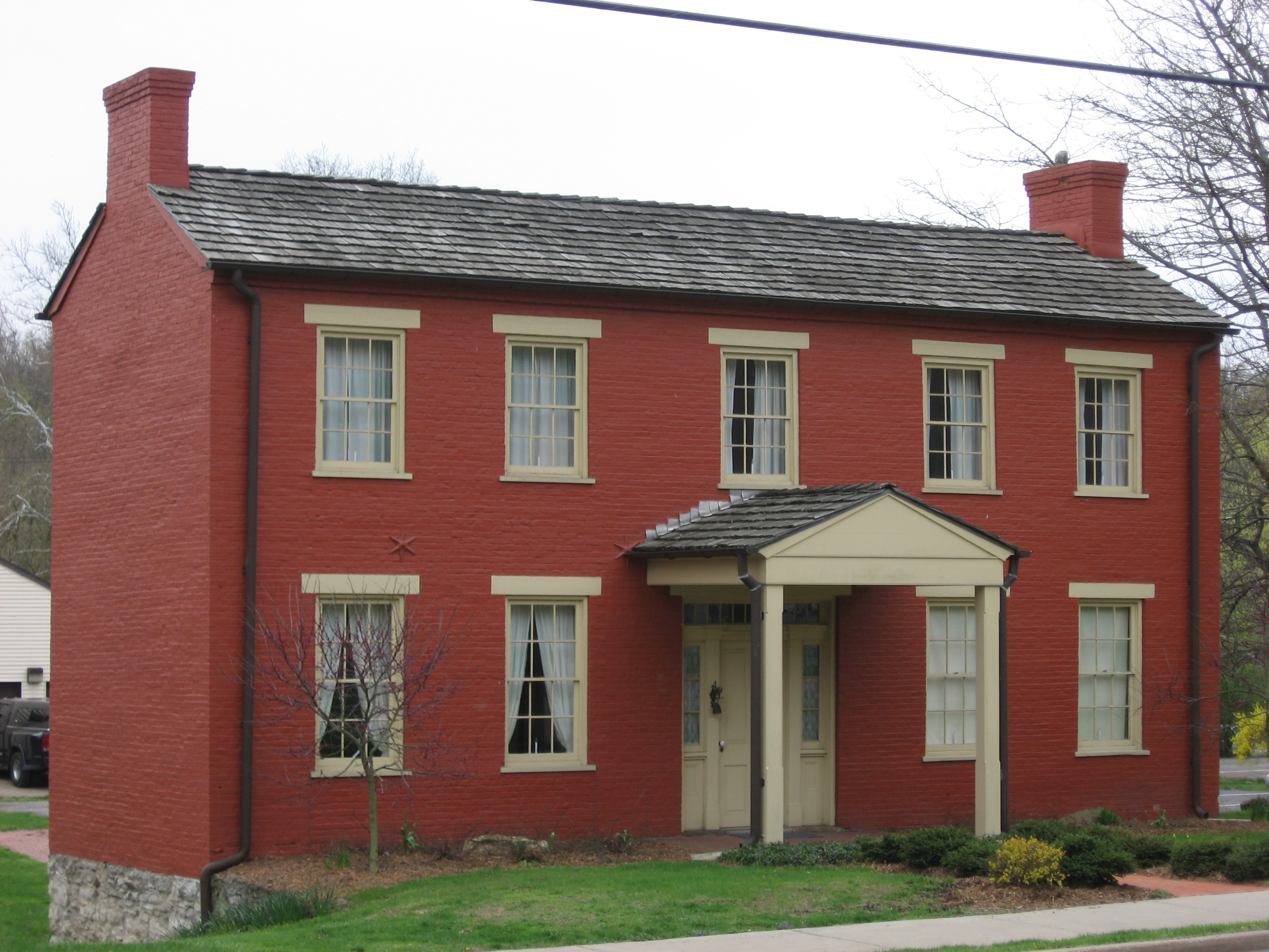 Front and eastern side of the Delta Tau Delta Founders House, located at 211 Main Street (West Virginia Route 67) in downtown Bethany, West Virginia, United States. Built in 1855, it is listed on the National Register of Historic Places, and it is part of a Register-listed historic district, the Bethany Historic District.